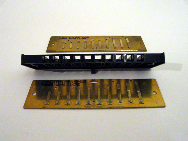 Parts of a harmonica: Comb (centre) and reedplates